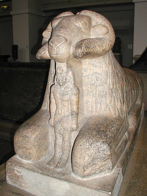 Granite statue of Amun in the form of a ram protecting King Taharqa, in the British Museum. Ref. No. EA 1779. From Temple T at Kawa, Sudan, 25th Dynasty, 690-664 BC.